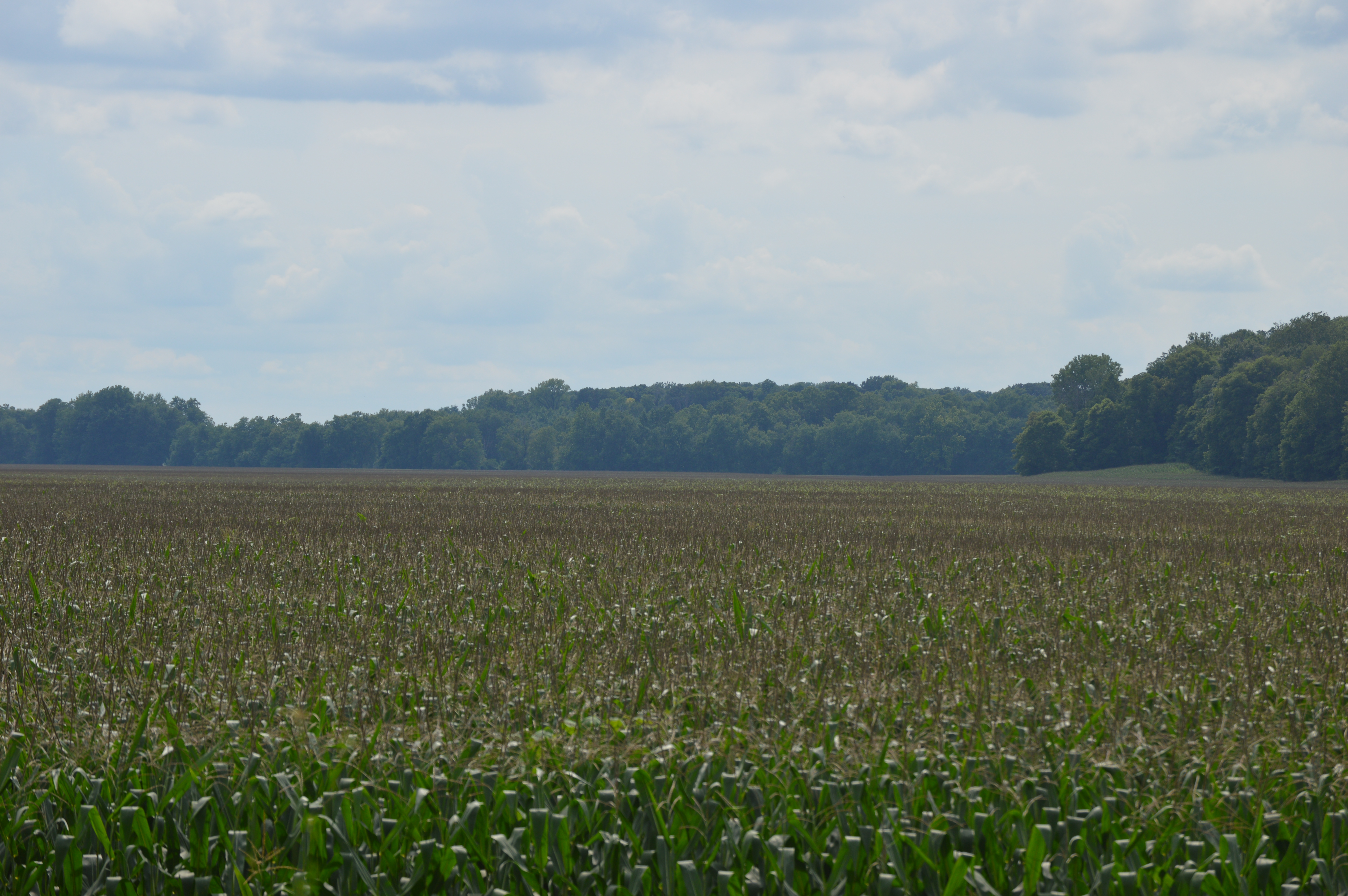 Cornfields southwest of Grant Road in Tippecanoe Township, Tippecanoe County, Indiana, United States. The Tippecanoe River flows at the base of the wooded bluffs in the distance.